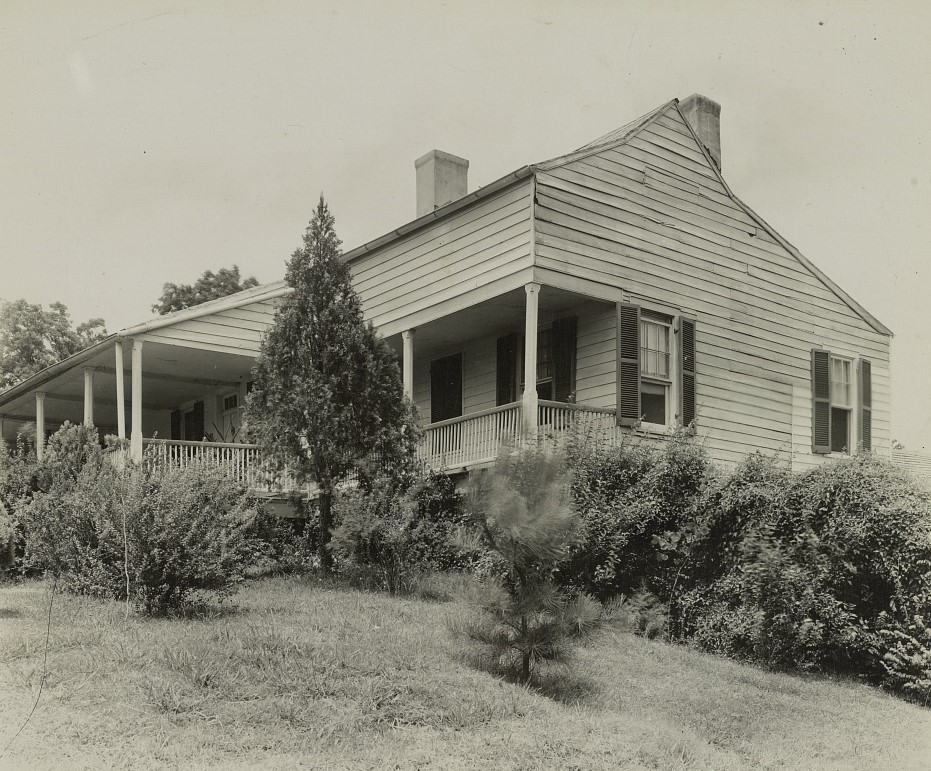 Title Airlie, Natchez, Adams County, Mississippi Contributor Names Johnston, Frances Benjamin, 1864-1952, photographer Created / Published 1938. Subject Headings - United States--Mississippi--Adams County--Natchez. - Gables. - Porches. - Clapboard siding. - Houses. - Mississippi--Adams County--Natchez Format Headings Photographic prints. Notes - Title from photographer's inventory. - Built during Spanish regime. Owned by Aylette Buckner in antebellum days, great grandfather of the present owners. Used as a hospital for Union soldiers in Civil War. - Corresponding Carnegie Survey of the Architecture of the South neg. no. 1003. Library has no record of having this neg. - Building/structure dates: before 1790. - Related names: The Misses Merrill. - Gift; Anne E. Peterson; 2011; (DLC/PP-2011:206) - Forms part of: Carnegie Survey of the Architecture of the South (Library of Congress). Medium 1 photographic print. Call Number/Physical Location LOT 11838-1 [item] [P&P] Repository Library of Congress Prints and Photographs Division Washington, D.C. 20540 USA Digital Id ppmsca 32343 //hdl.loc.gov/loc.pnp/ppmsca.32343 Control Number csas201207171 Reproduction Number LC-DIG-ppmsca-32343 (digital file from photograph) Rights Advisory No known restrictions on publication. Online Format image Description 1 photographic print.